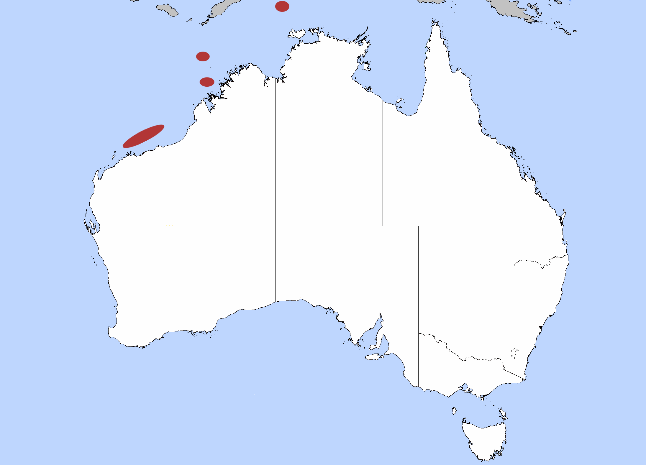 The Distribution of the Grey Gummy Shark